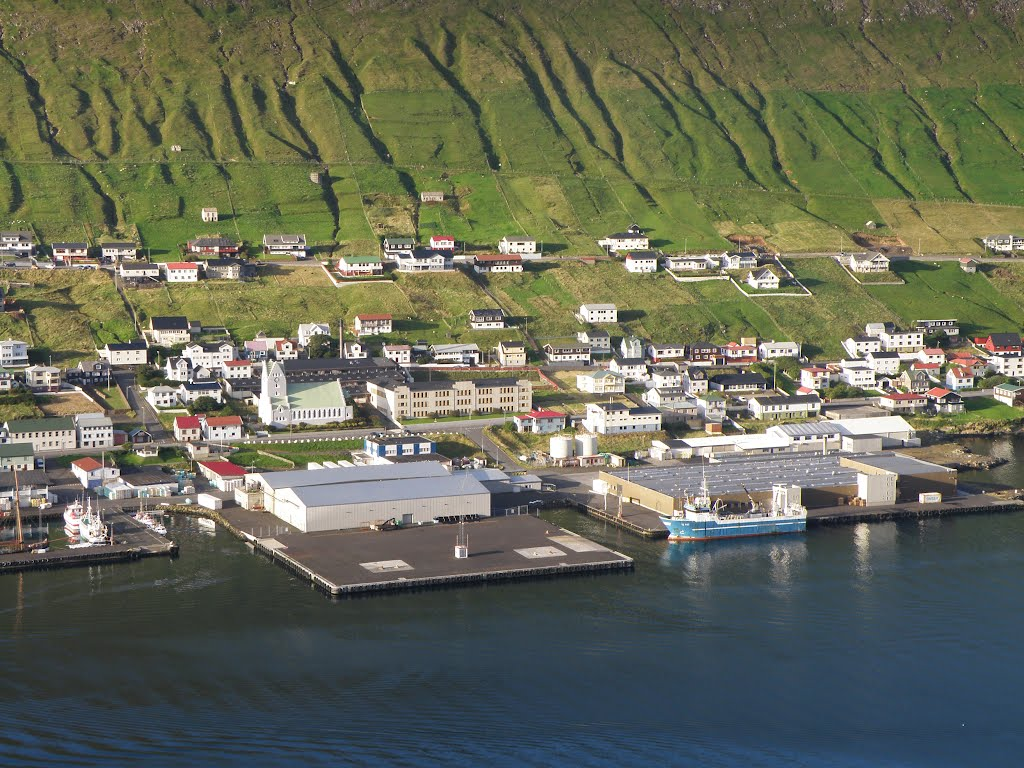 Vágur is a village on the island Suðuroy in the Faroe Islands. On this photo is the harbour, the church, the school, the town hall and a part of the family houses of the village.